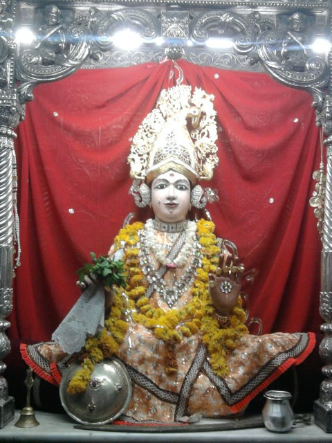 Ghanshyam Maharaj, Shri Swaminarayan Mandir, Silampura, Burhanpur - 450331